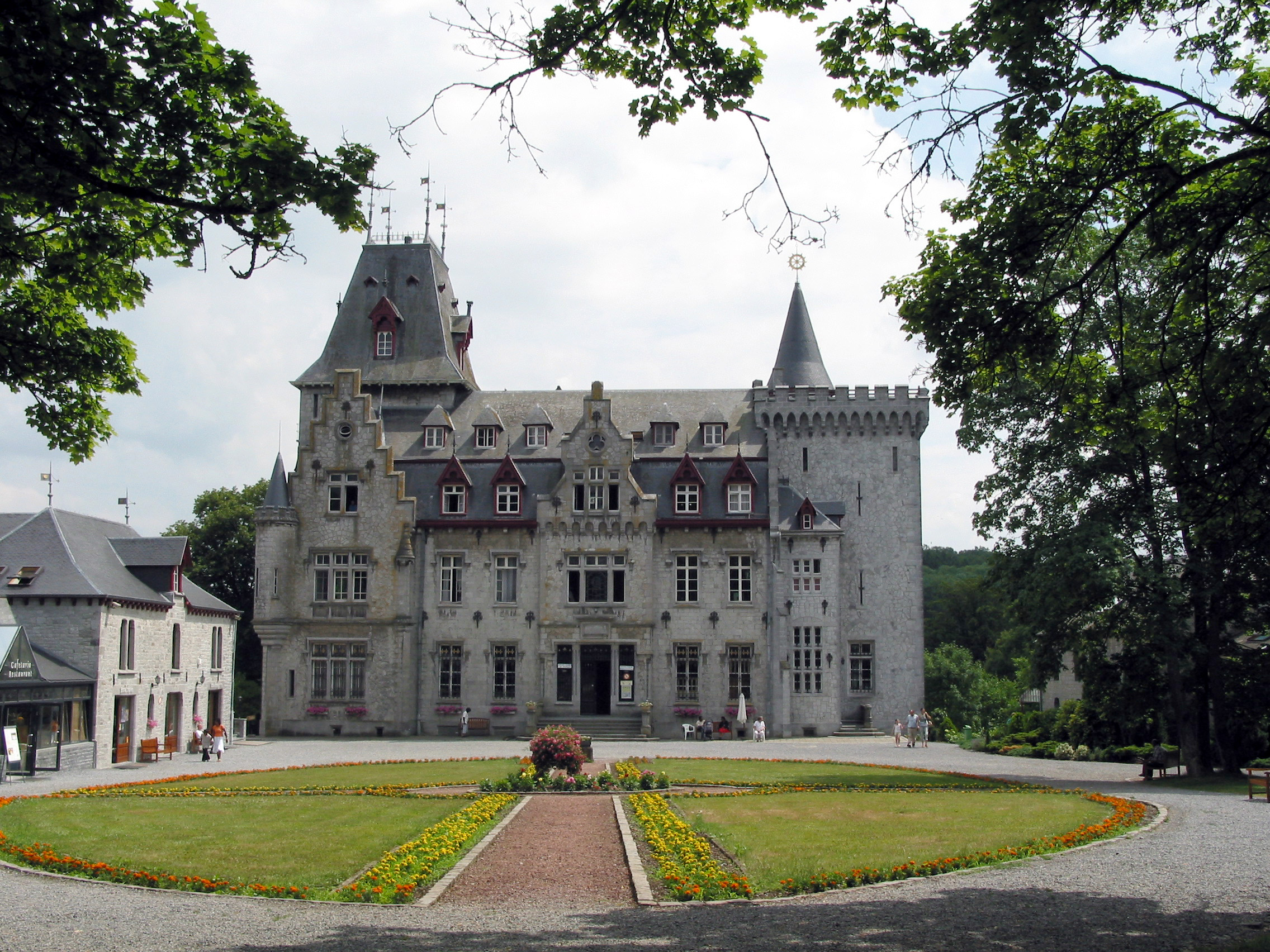 Septon (Belgium), the castle of Petite-Somme.